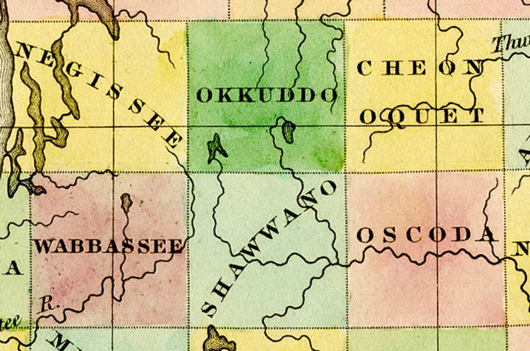 Detail of A New Map of Michigan With Its Canals, Roads & Distances by H.S. Tanner, 1842, showing: Meegisee County (misspelled "Negissee") (later renamed Antrim County) Okkuddo County (later renamed Otsego County) Cheonoquet County (later renamed Montmorency County) Wabassee County (misspelled "Wabbassee") (later renamed Kalkaska County) Shawono County (misspelled "Shawwano") (later renamed Crawford County) Oscoda County